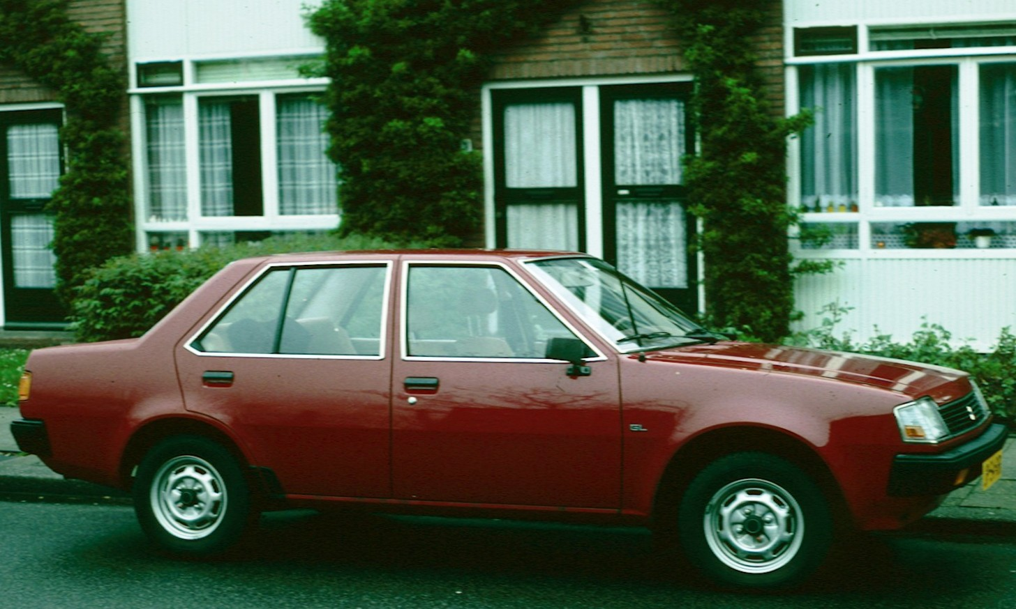 Mitsubishi Lancer F GL (European nomenclature) third generation in Utrecht